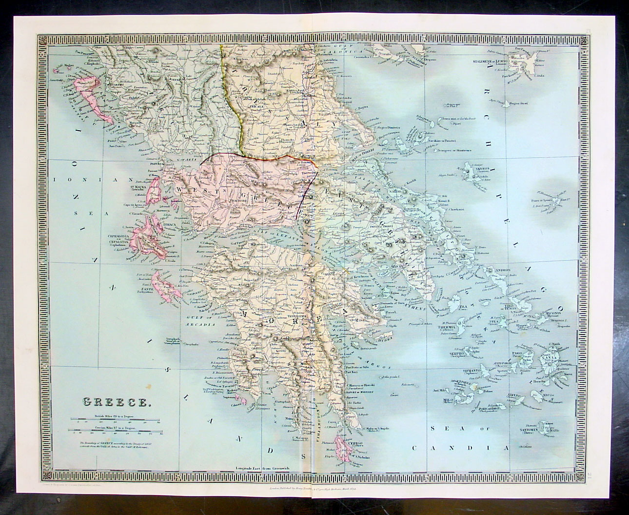 This engraved, double page, original hand coloured map of Greece was engraved by John Dower in 1834 - the date is engraved at the foot of the map - and was published in the 1835 edition of Henry Teesdale's A New General Atlas of the World.